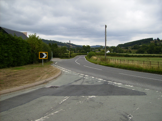 Road junction on the A458 near Cyfronydd.